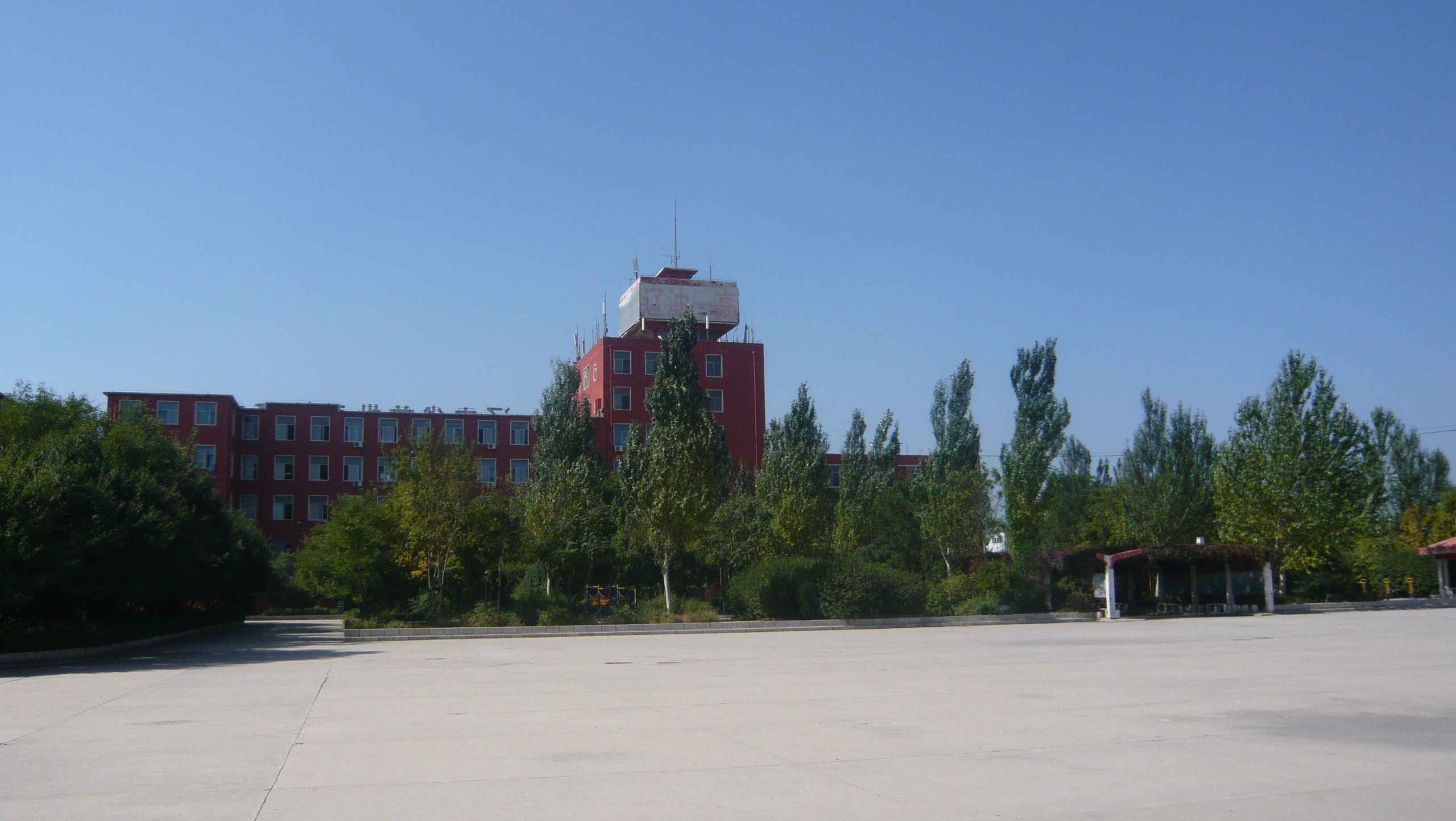 LYYG School west building